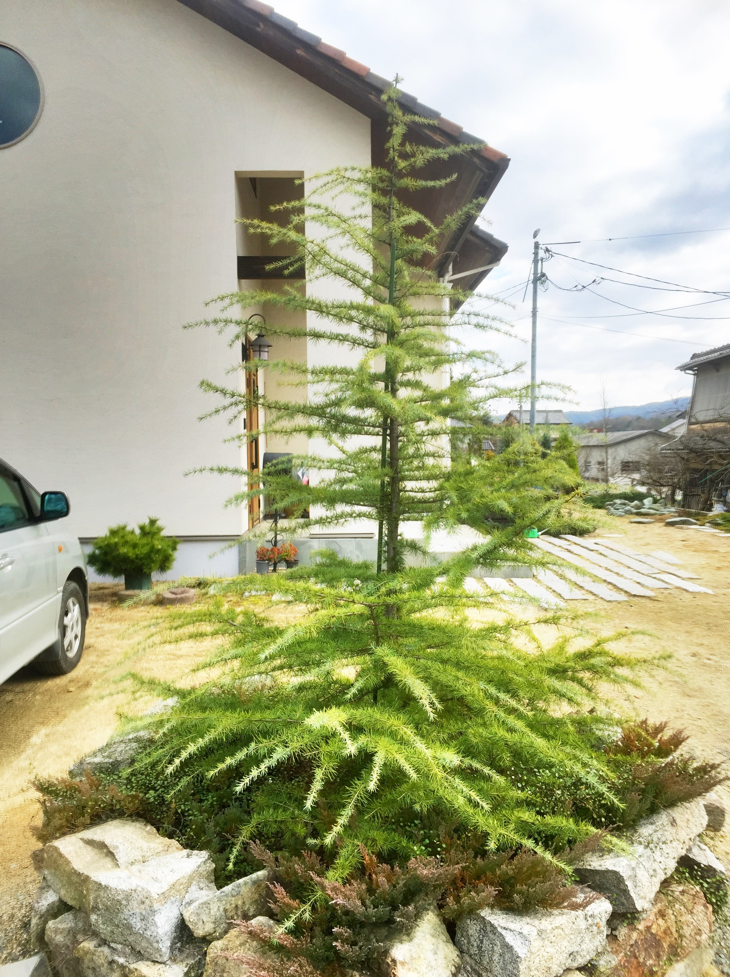 Cedrus deodara "silverspring"